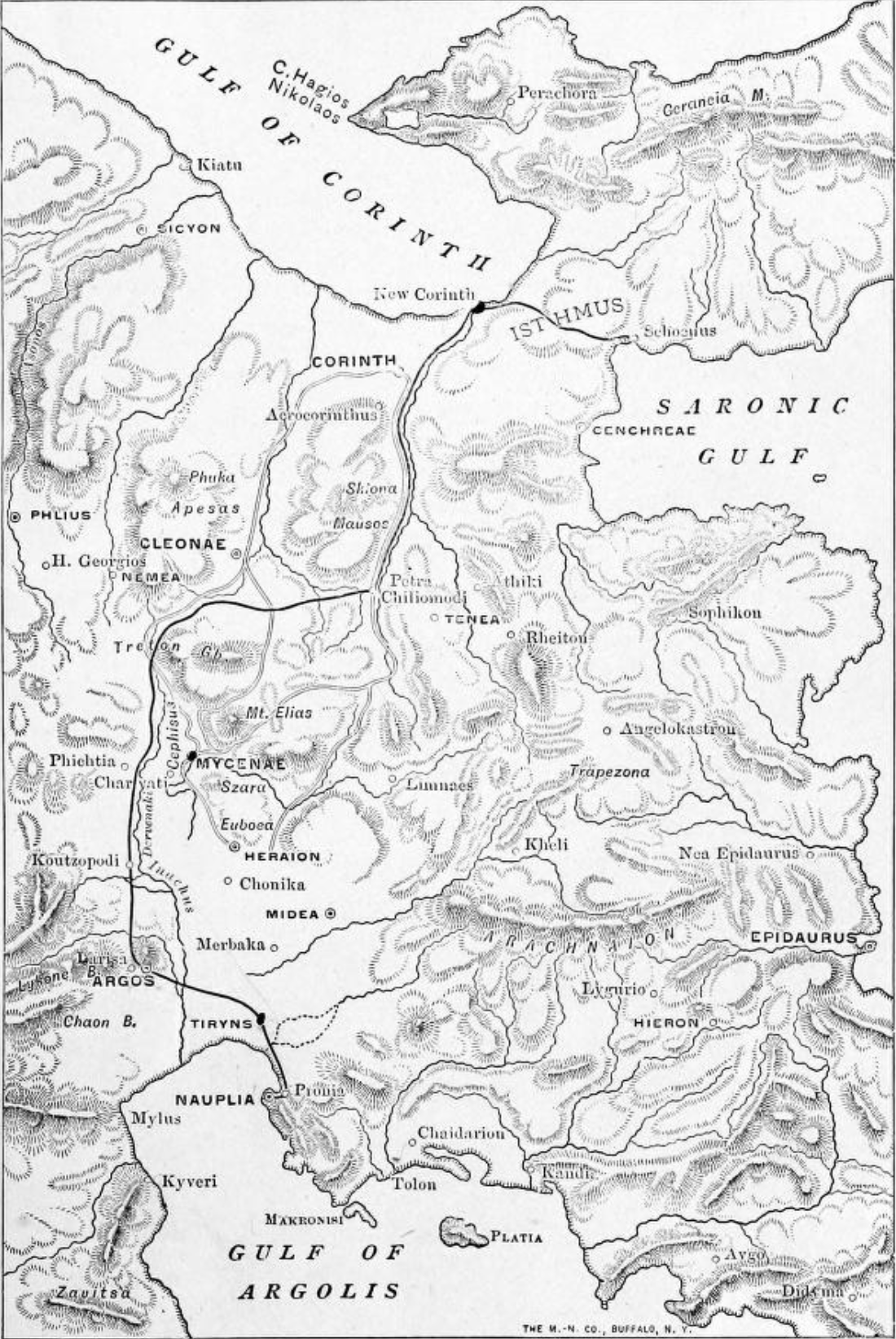 Map of Argolis during Mycenaean Ages